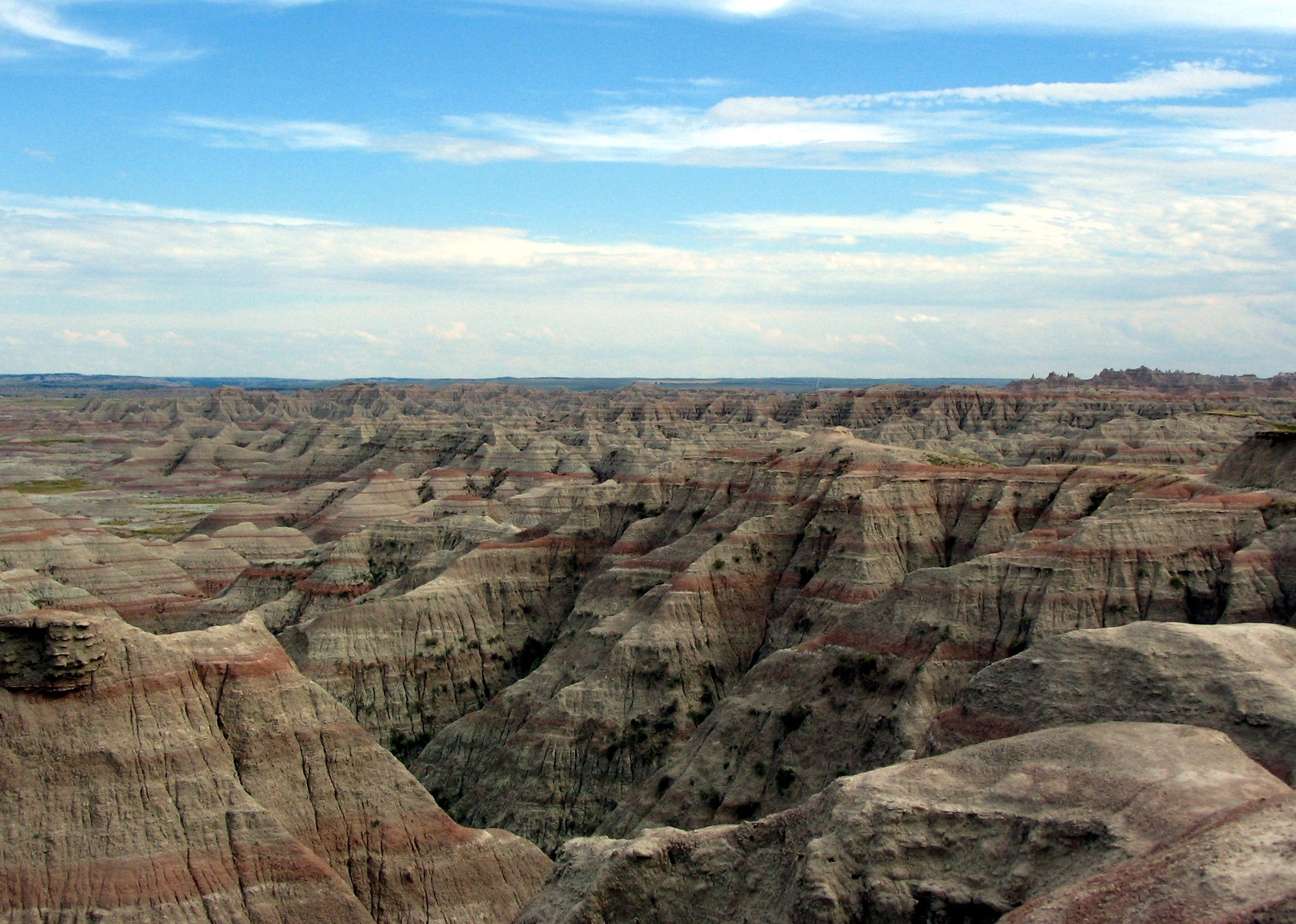 View of Badlands National Park. Category:Images of South Dakota